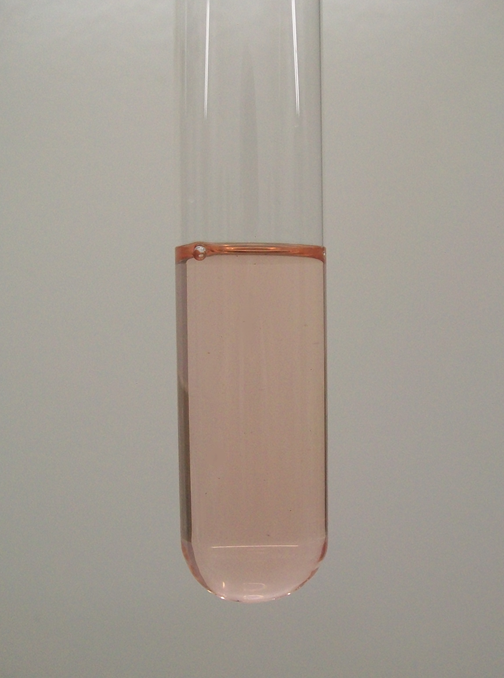 Technical sulfuric acid, selled as an industrial drain cleaner